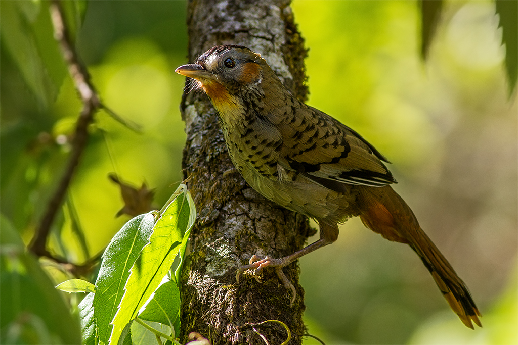 Rufous-chinned Laughingthrush | Bajoon, Uttarakhand, India